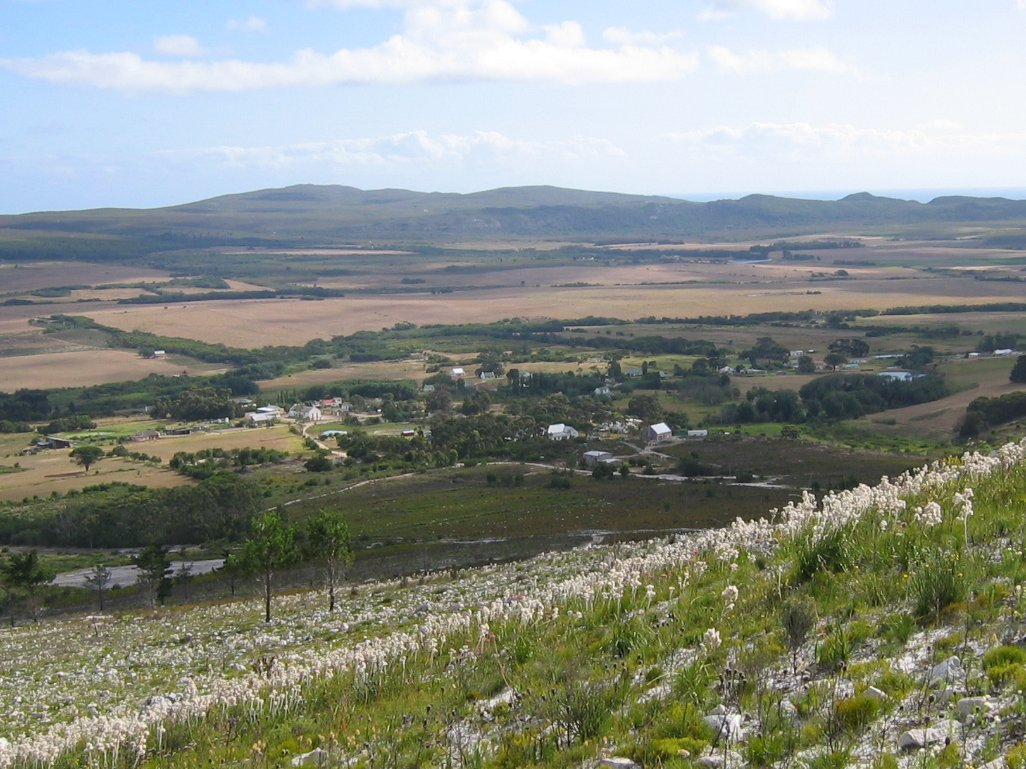 A view of Baardskeerdersbos village in the Western Cape, South Africa, seen from the slope of Perdekop, the hill behind the village.